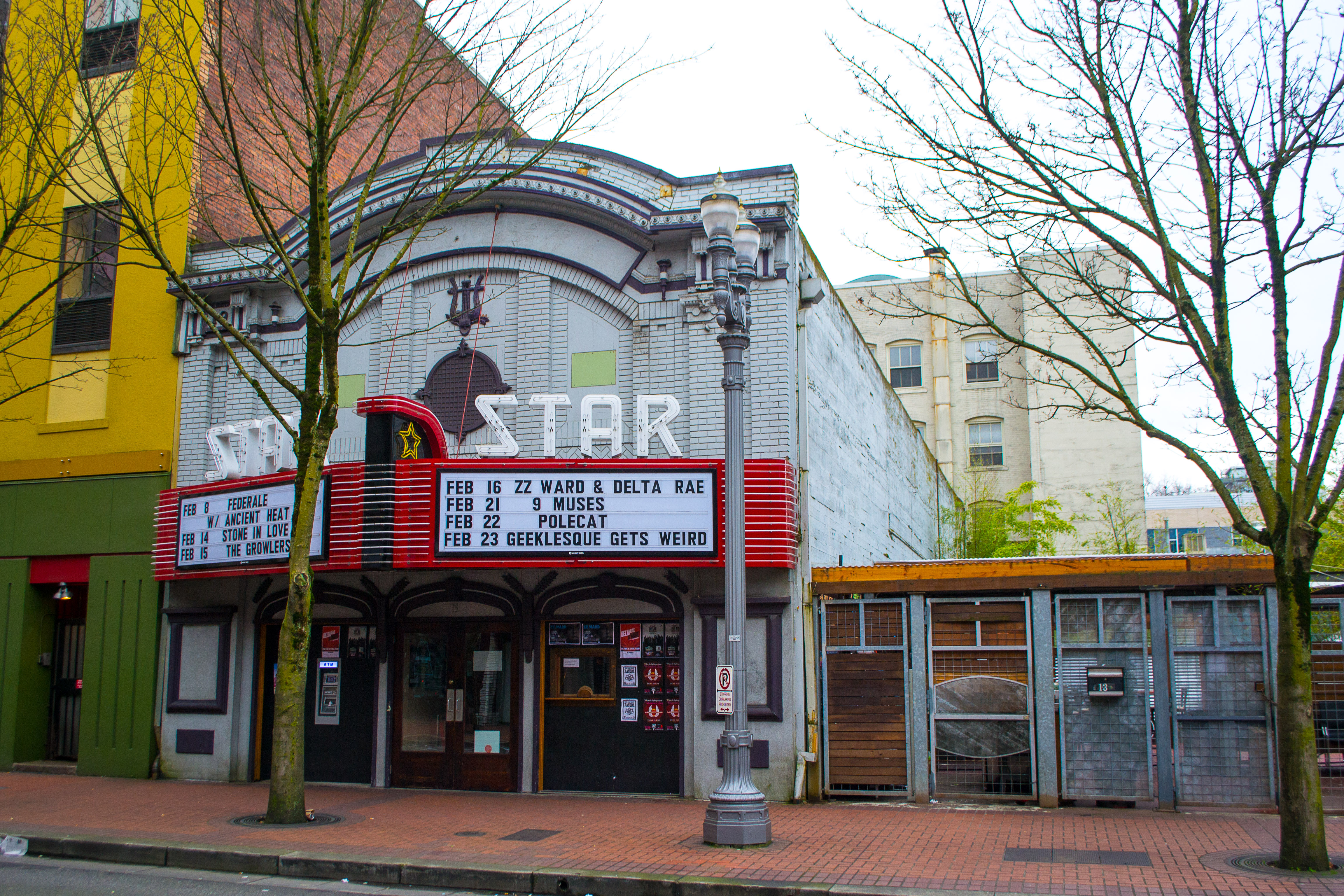 The former silent cinema and adult theater is now a music venue.